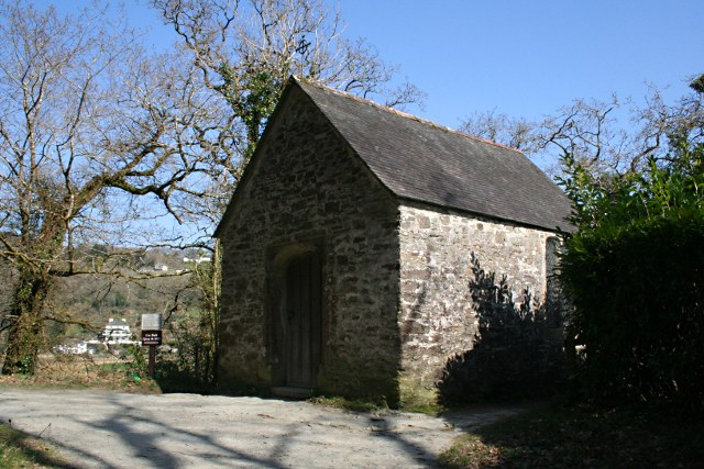 Chapel in the Woods This old chapel sits next to the footpath through Cotehele Woods and overlooks the River Tamar. According to the nearby information sign it was built around 1490 at the behest of Sir Richard Edgcumbe.